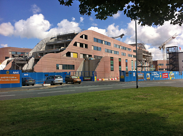 The buildings for the new Alder Hey children's hospital seen from East Prescot Road, under construction in 2014